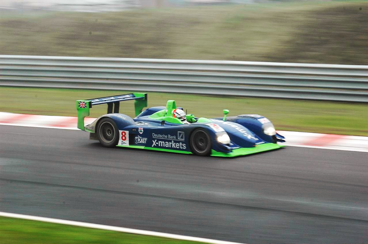 Martin Short in the Rollcentre Racing Dallara SP1 Judd at the 2005 1000km of Spa